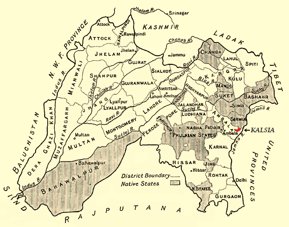 Location of Kalsia in a 1911 map of the Punjab Districts.]